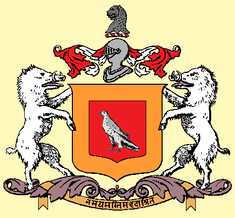 Sailana State Coat of Arms This work is in the public domain in India because its term of copyright has expired. The Indian Copyright Act applies in India, to works first published in India. According to The Indian Copyright Act, 1957 (Chapter V Section 25), Anonymous works, photographs, cinematographic works, sound recordings, government works, and works of corporate authorship or of international organizations enter the public domain 60 years after the date on which they were first published, counted from the beginning of the following calendar year (ie. as of 2020, works published prior to 1 January 1960 are considered public domain). Posthumous works (other than those above) enter the public domain after 60 years from publication date. Any other kind of work enters the public domain 60 years after the author's death. Text of laws, judicial opinions, and other government reports are free from copyright. Photographs created before 1960 are in the public domain 50 years after creation, as per the Copyright Act 1911. This file may not be in the public domain outside India. The creator and year of publication are essential information and must be provided. See Wikipedia:Public domain and Wikipedia:Copyrights for more details. This image shows a flag, a coat of arms, a seal or some other official insignia. The use of such symbols is restricted in many countries. These restrictions are independent of the copyright status.